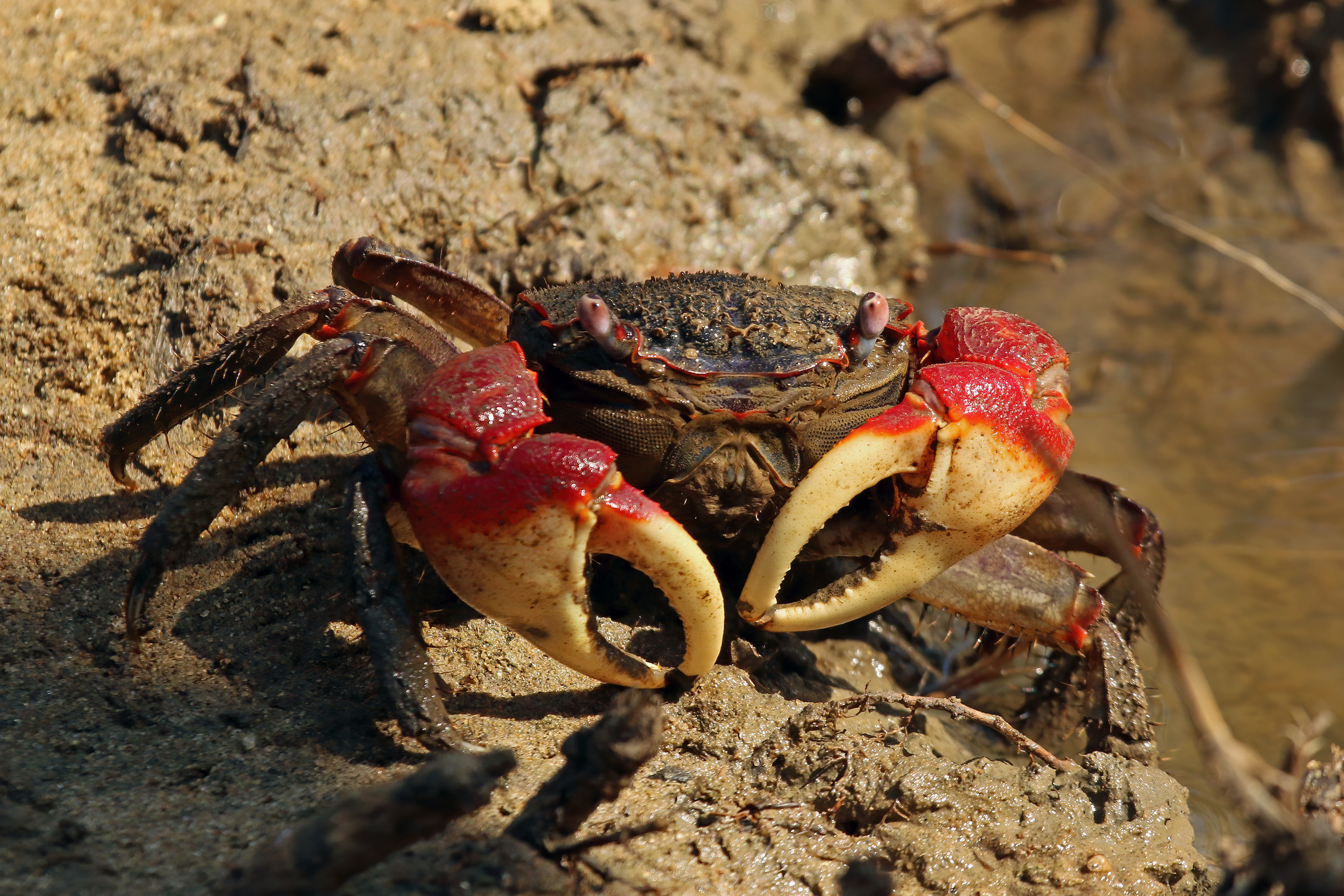 Red mangrove crab (Neosarmatium meinerti), (formerly Sesarma meinerti), iSimangaliso, South Africa